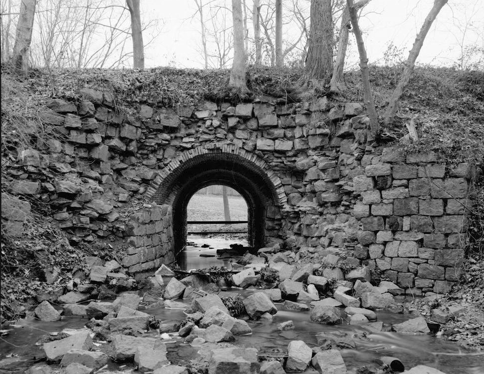 Perch Creek Culvert No. 1 ? on the New Castle and Frenchtown Railroad (1830s). HAER records this as part of a Delaware survey, but drawings (same page) show this in Cecil County, Maryland